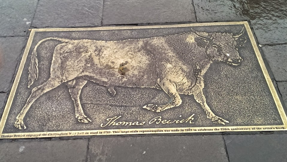 Bewick's engraving 'Chillingham Bull' was set into the pavement near to Central Station by the Bewick Society in 2003 to mark the 250th Anniversary of his birth